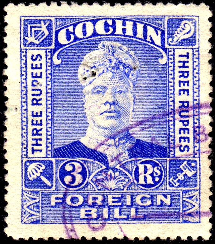 Foreign bill revenue stamp of Cochin.